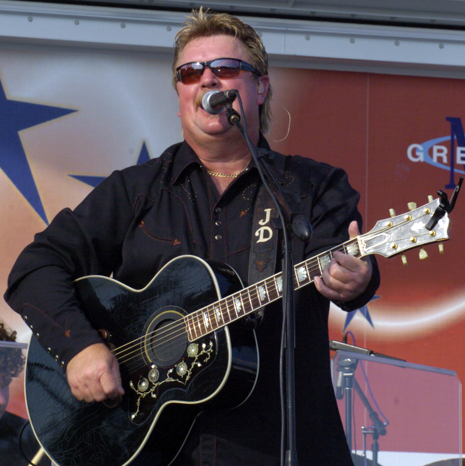 Country music recording artist Joe Diffie performs in front of Sailors and family members on Ross Field at Naval Station Great Lakes. The free concert, which also included country star Aaron Tippin, was part of the Spirit of America Tour sponsored by Morale, Welfare and Recreation.